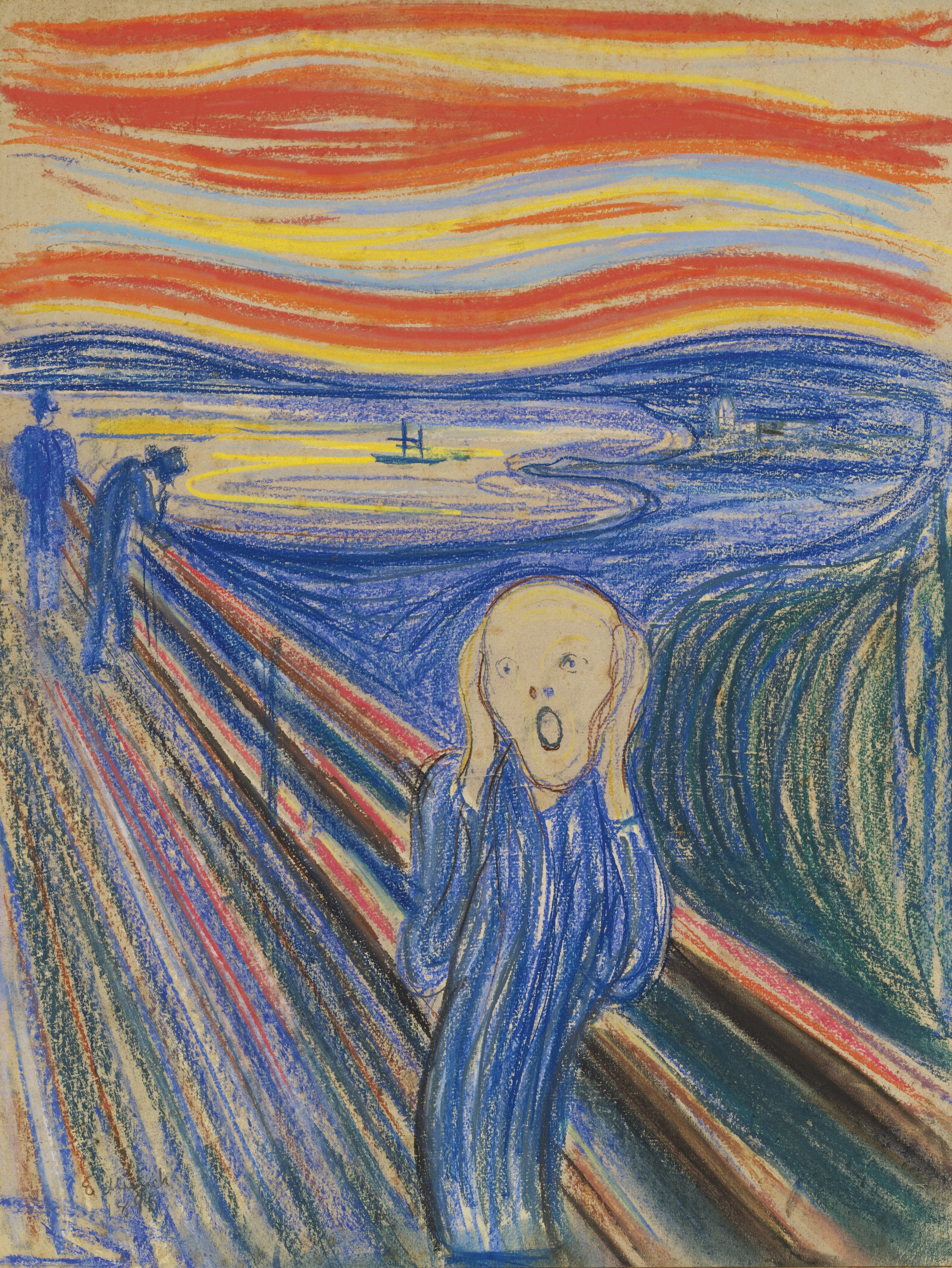 This is one of several versions of the painting The Scream. This version, executed in 1895 in pastel on cardboard, was sold on 2 May 2012 for $119,922,500 the highest nominal price paid for a painting at auction at that time.